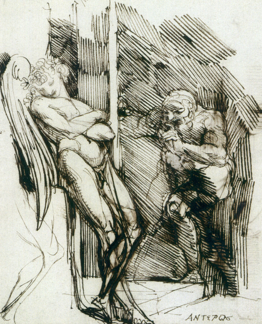 Johann Heinrich Füssli Anteros, lüsterner Alter, auf den kokett abgewandten Gott zutretend. Pen drawing, between 1790 and 1800, 23 × 18.5 cm